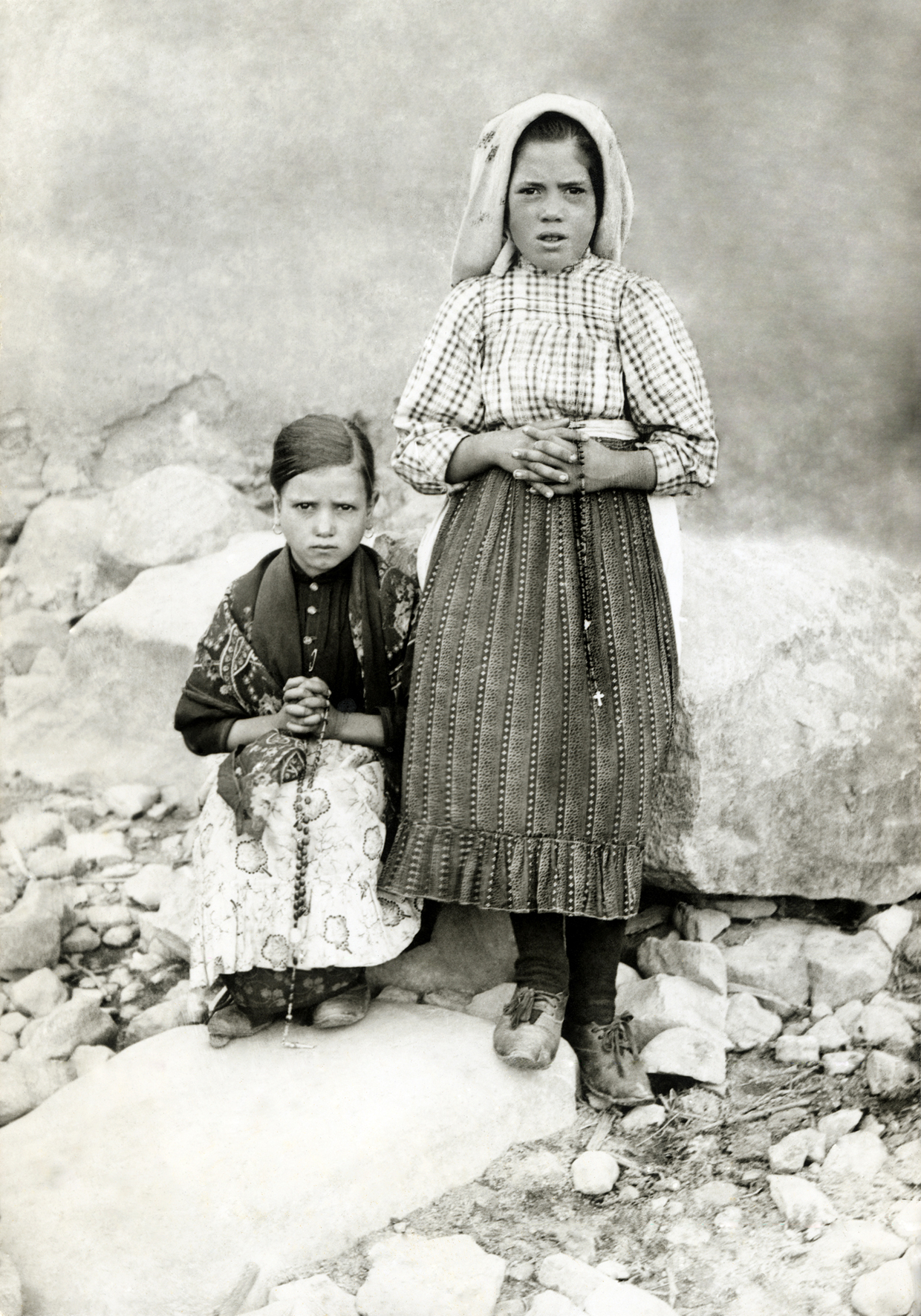 Cousins Jacinta Marto (left, seated) and Lúcia Santos, two of the three children whom the Our Lady of Fatima appeared.